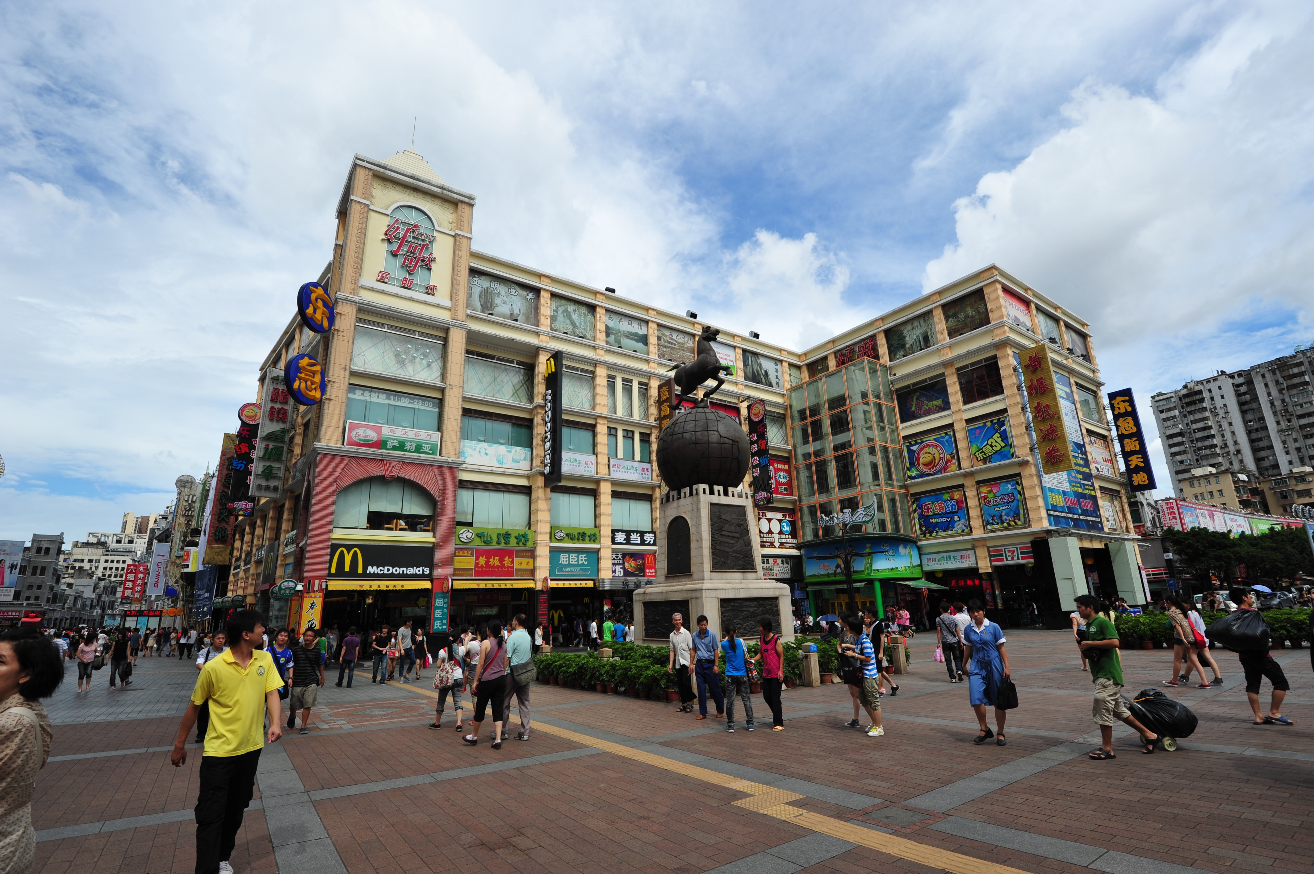 guangzhou guangdong shopping china 2011